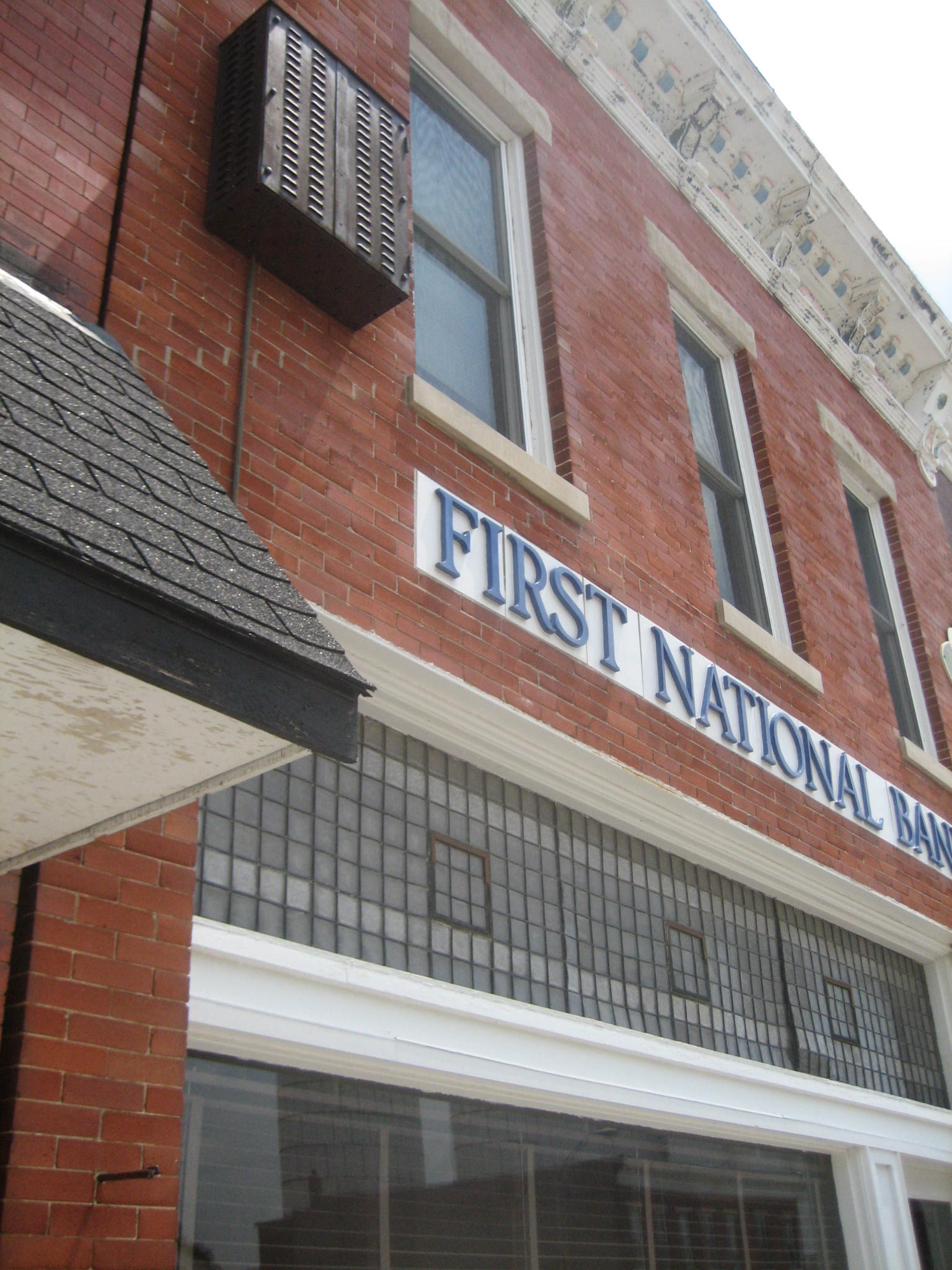 Main Street Historic District, Tampico, Illinois. U.S. National Register of Historic Places. Ronald Reagan Birthplace, First National Bank, 111 S. Main St. (center).